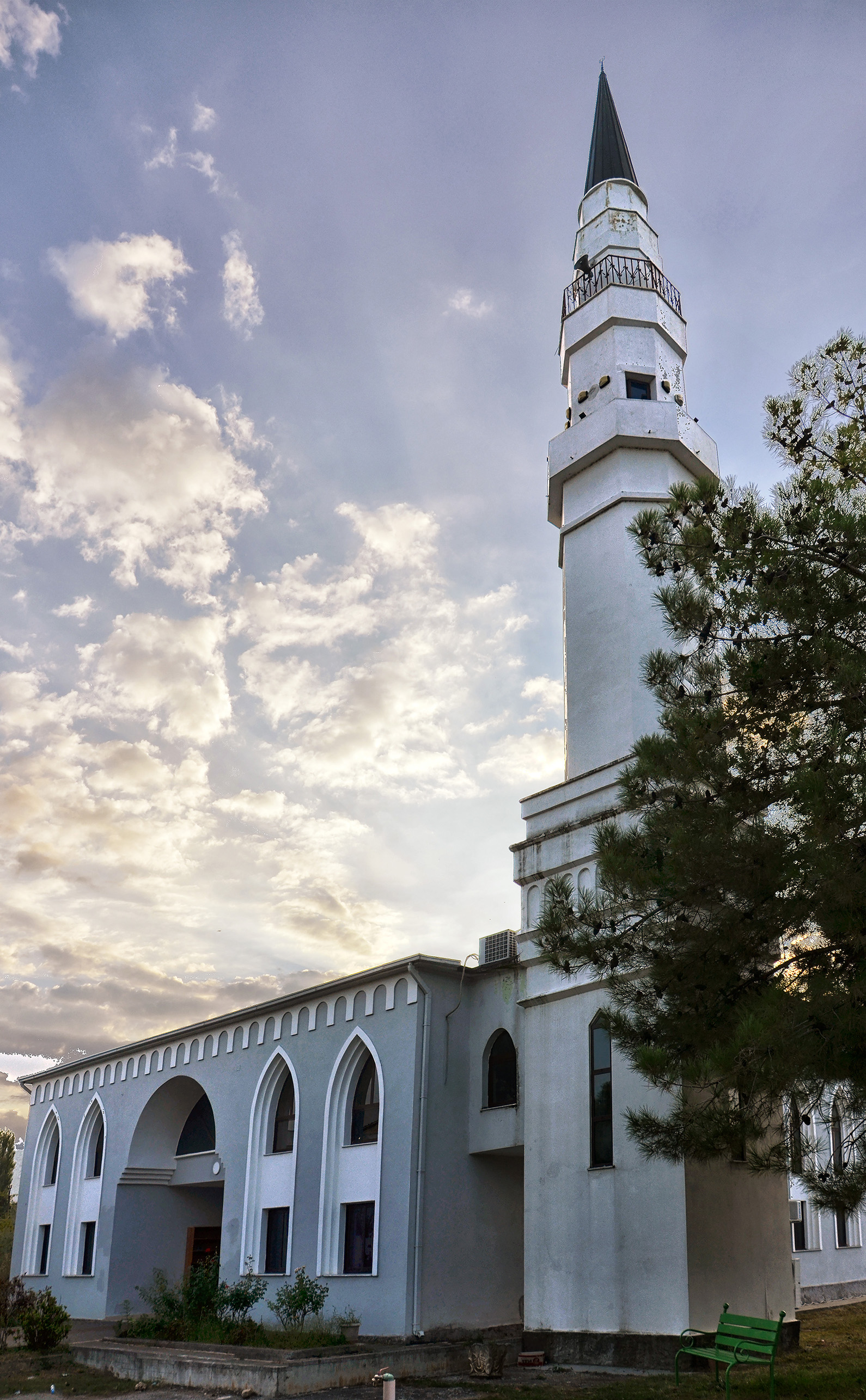 Mosque in Koplik, Albania